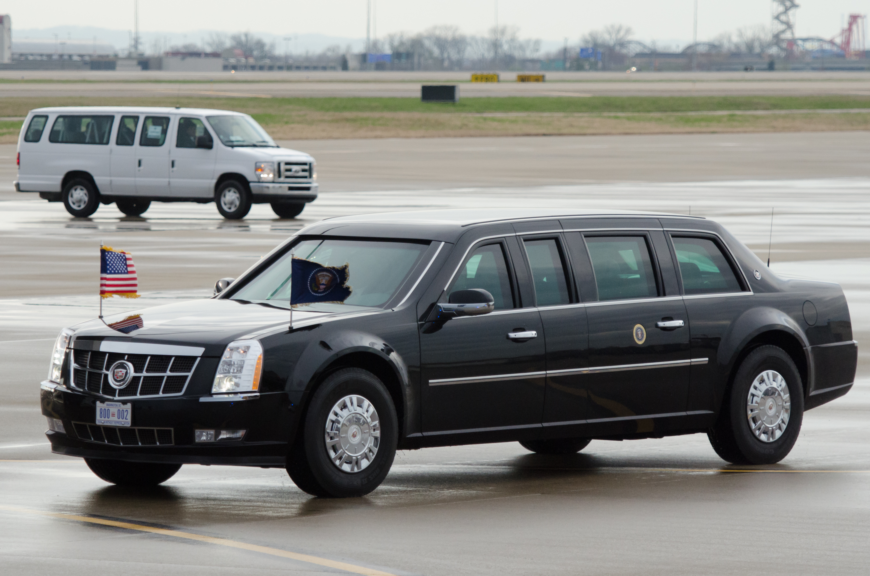 President Barack Obama transits through the Kentucky Air National Guard Base in Louisville, Ky., aboard Air Force One April 2, 2015. Obama was in town to discuss job training and economic growth during a visit to Indatus, a Louisville-based technology company that focuses on cloud-based applications. (U.S. Air National Guard photo by Maj. Dale Greer)